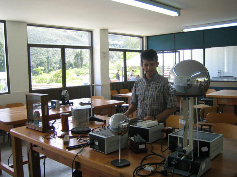 Teacher Wilson in the Department of Physics - Universidad de Pamplona